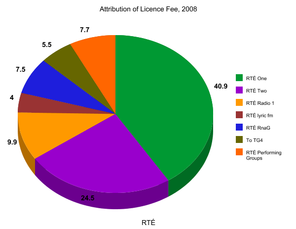 Breakdown of where the licence fee goes amongst RTÉ services.